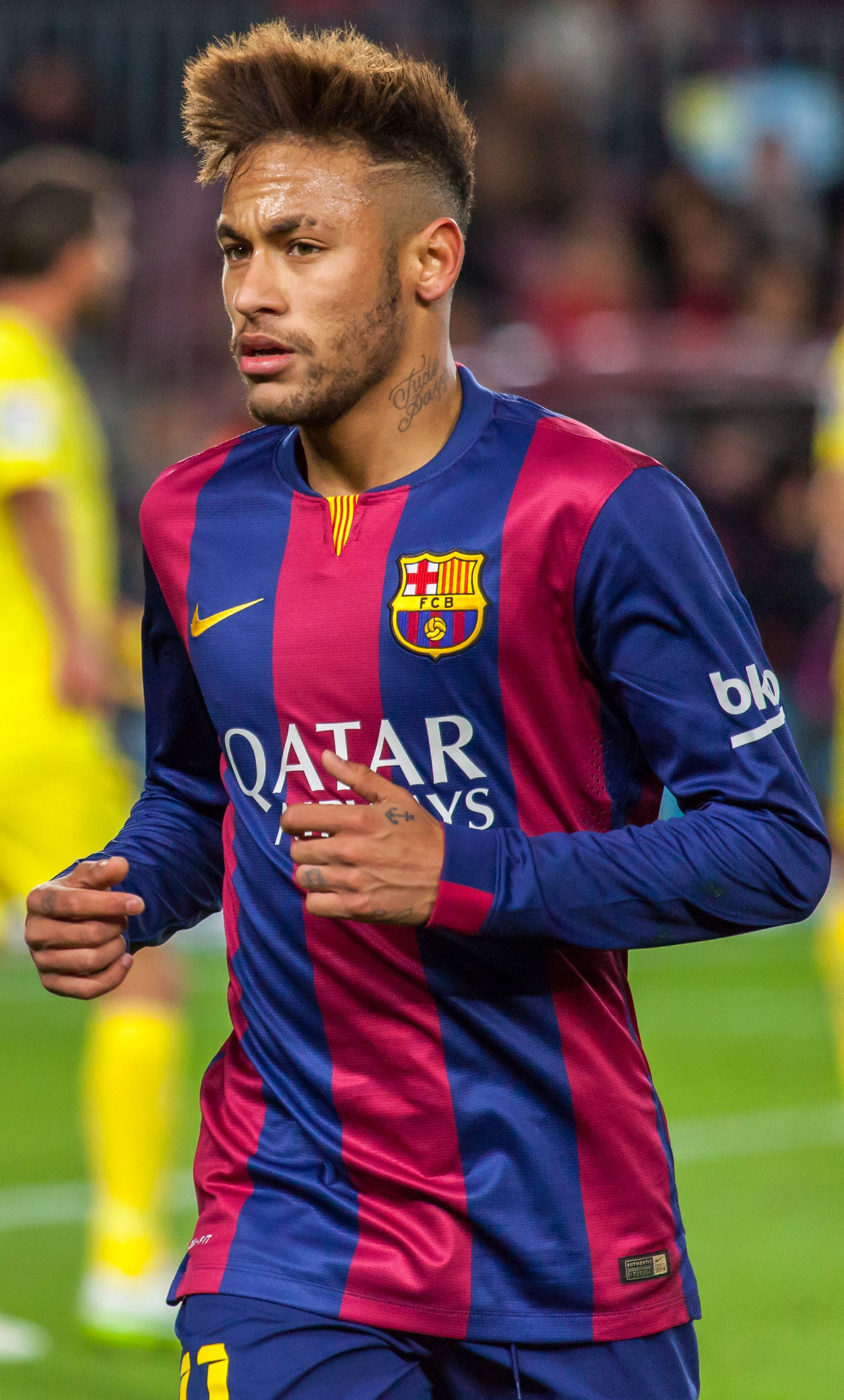 Neymar playing for Barcelona against Villarreal in La Liga, 1 February 2015. Neymar opened the scoring for Barcelona in their 3–2 win.